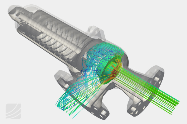 with the SimScale cloud-based CAE platform.